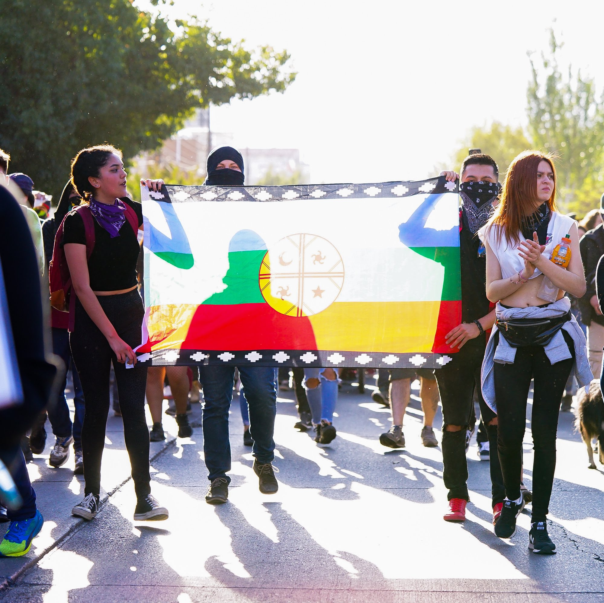 Sunday, october 20th - More than 20 thousand people gathered at the Plaza de Los Heroes (Heroes Square) at the very center of the city of Rancagua to peacefully demonstrate their will for a deep change of the state politics. This was the first masive march in more than 30 years.